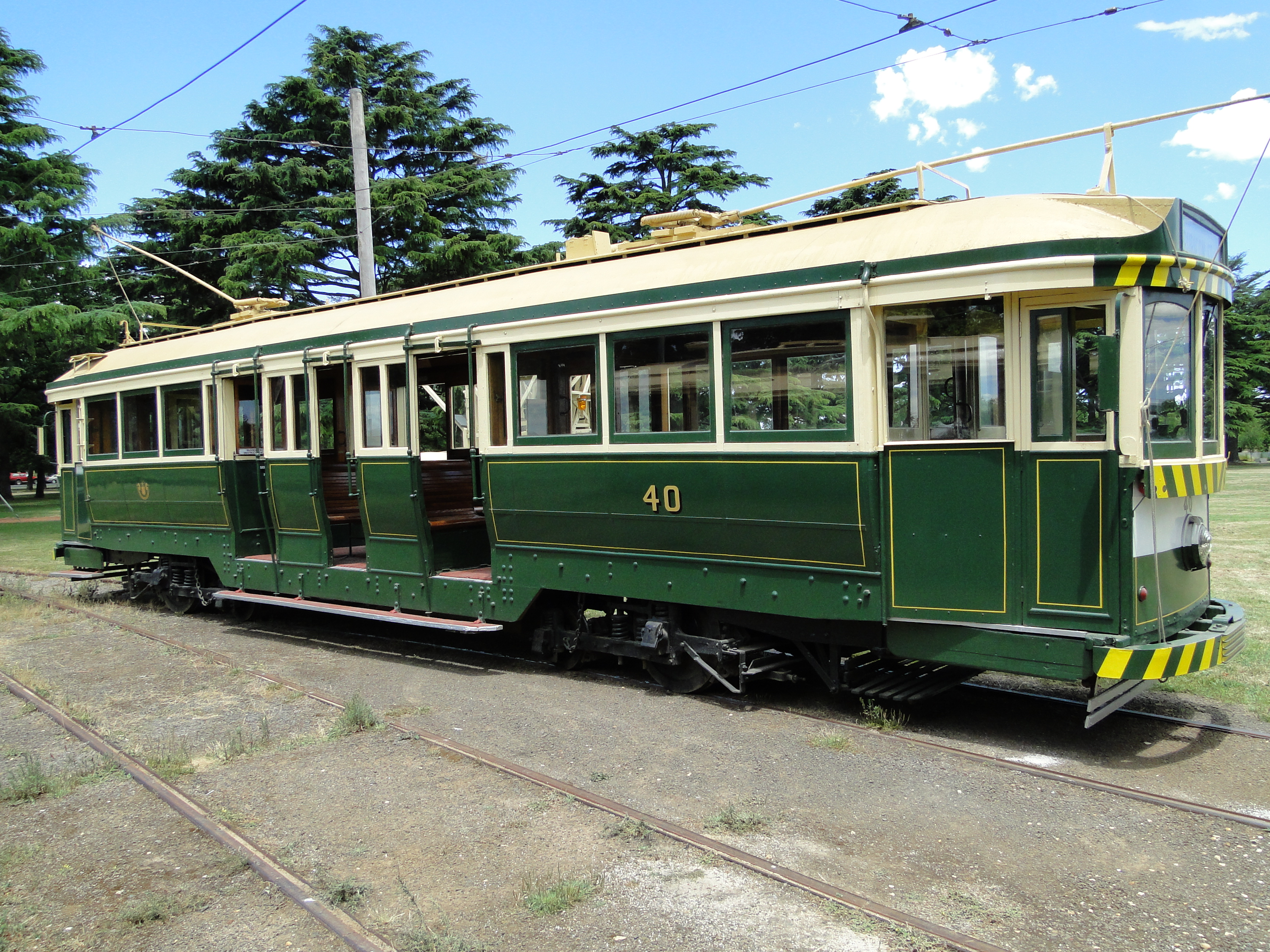 Ballarat trams No. 40 at the Ballarat Tramway Museum, Ballarat, Victoria, Australia